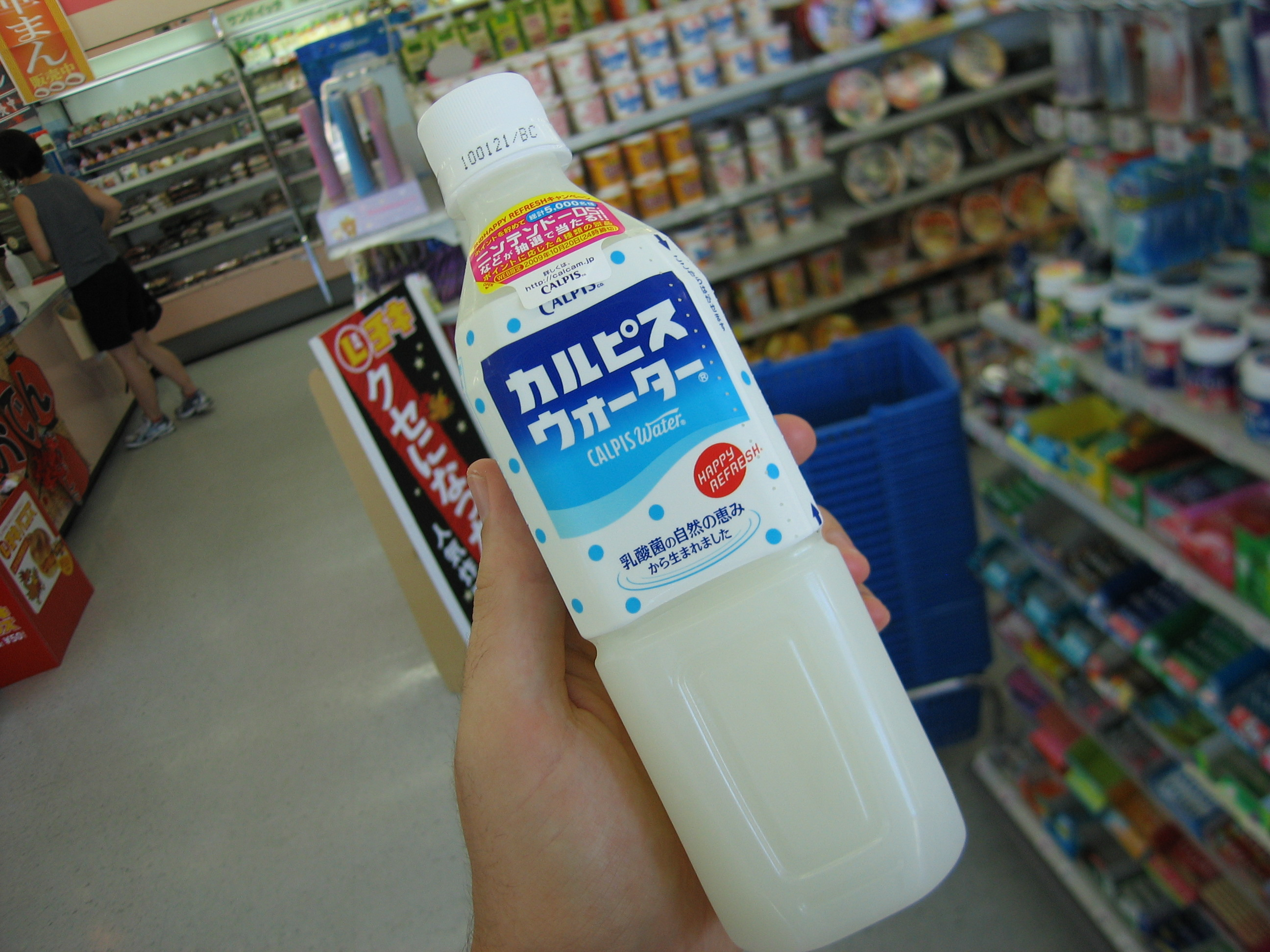 This photo was taken on September 1, 2009 using a Canon PowerShot S60.